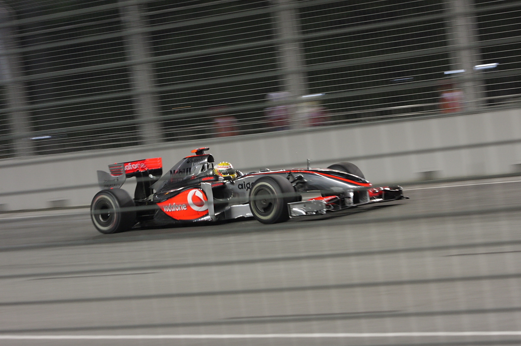 Lewis Hamilton driving for McLaren at the 2009 Singapore Grand Prix.